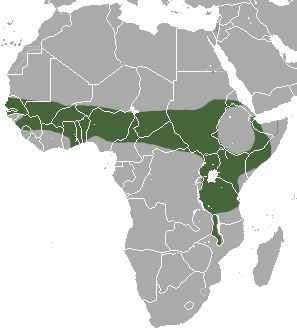 Four-toed Hedgehog (Atelerix albiventris) range